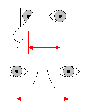 Turn your head to reduce blind spot.